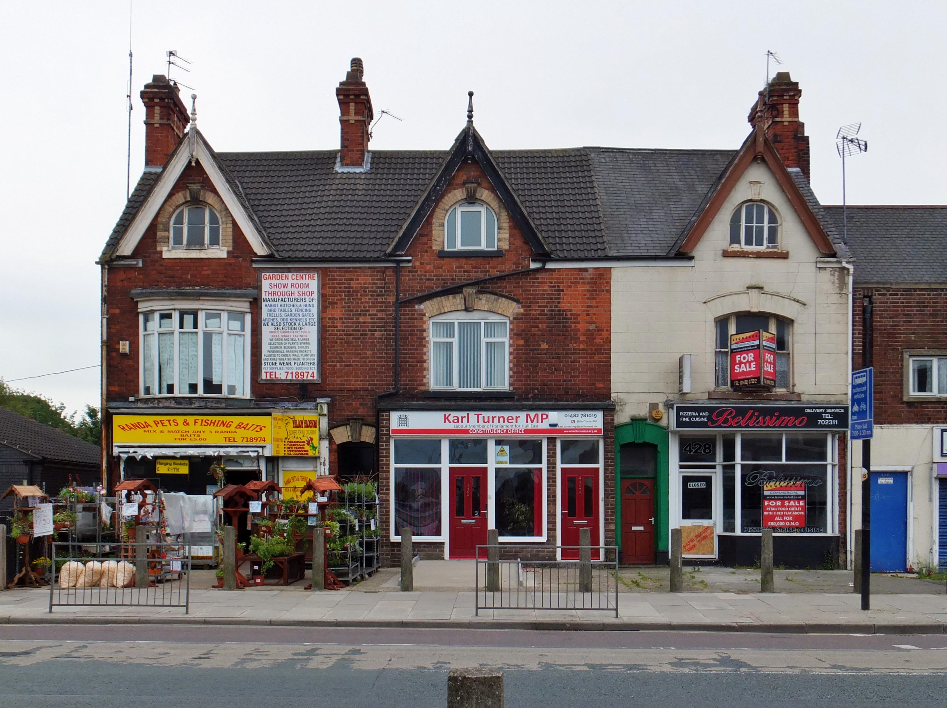 Holderness Road, Kingston upon Hull